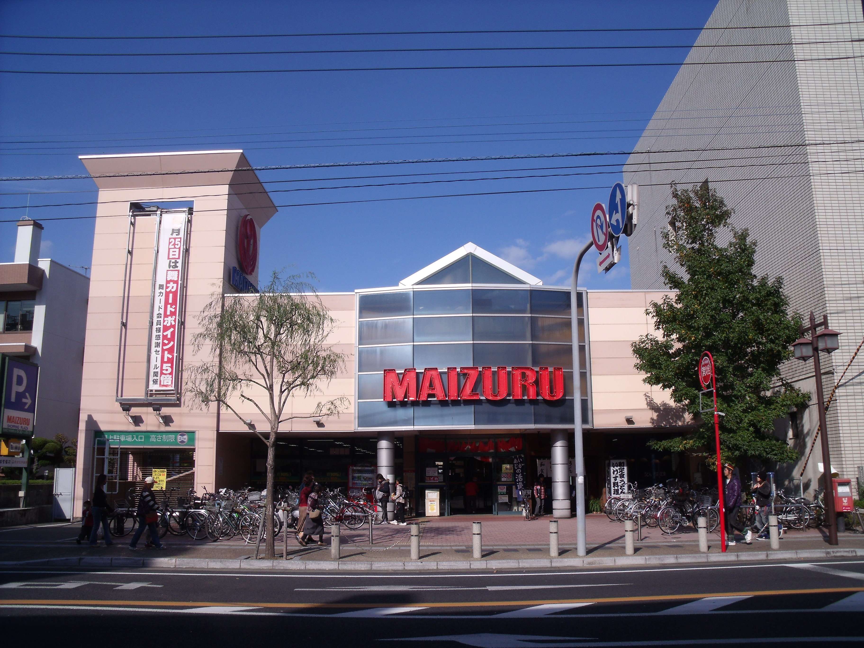 Maizuru Shopping Plaza on the Saga Prefecture.